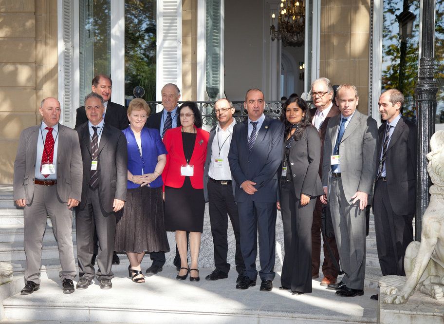 Organization members of the International Conference on Peace for the Basque Country.